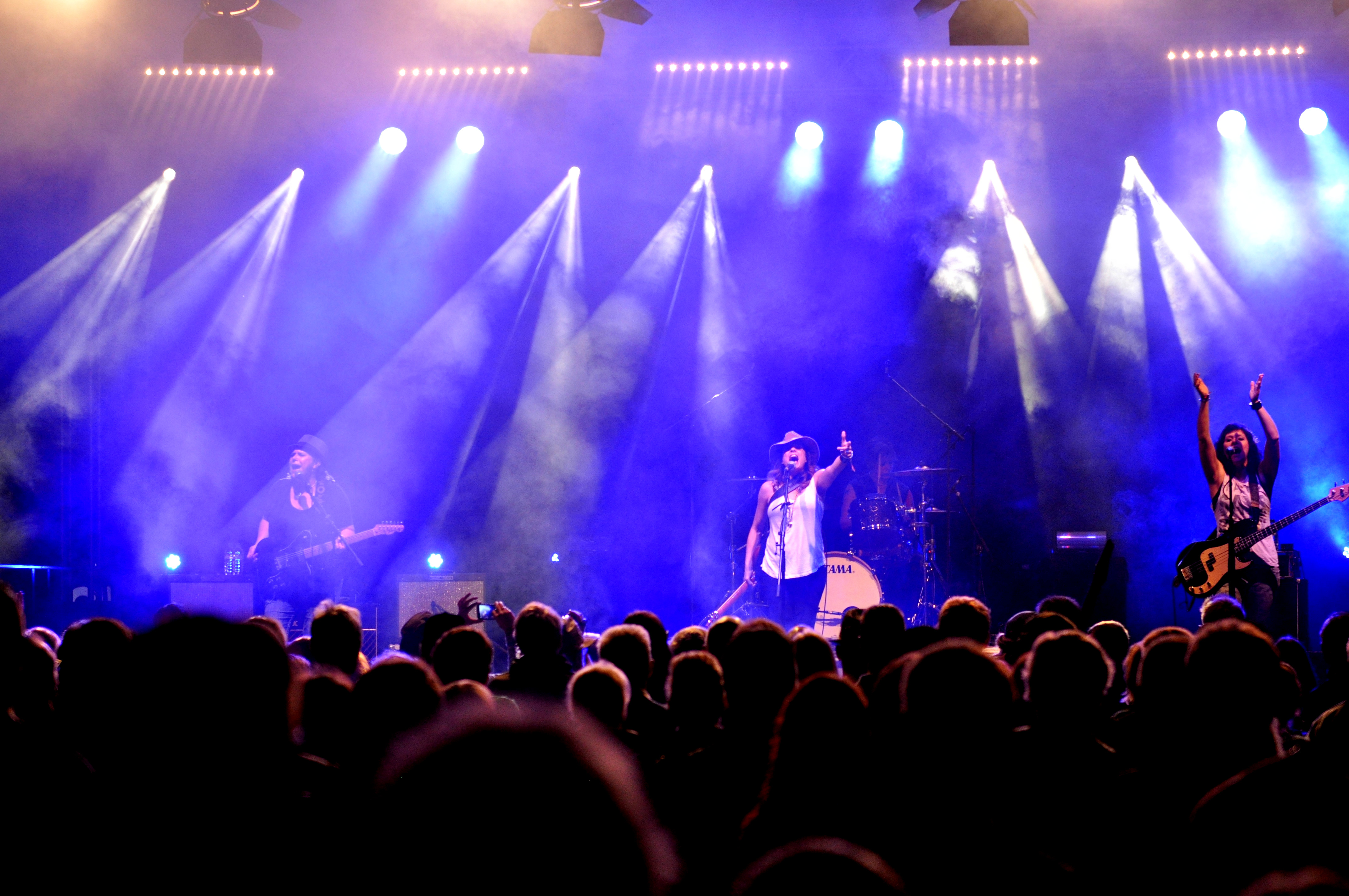 Antigone Rising (USA) appearance at the 2016 blacksheep festival at Bonfeld castle, Bad Rappenau, Baden-Wuerttemberg, Germany Festivalsommer This photo was created with the support of donations to Wikimedia Deutschland in the context of the CPB project "Festival Summer".